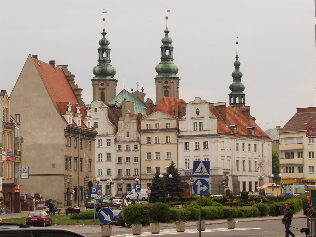 Market Square in Nysa, Poland